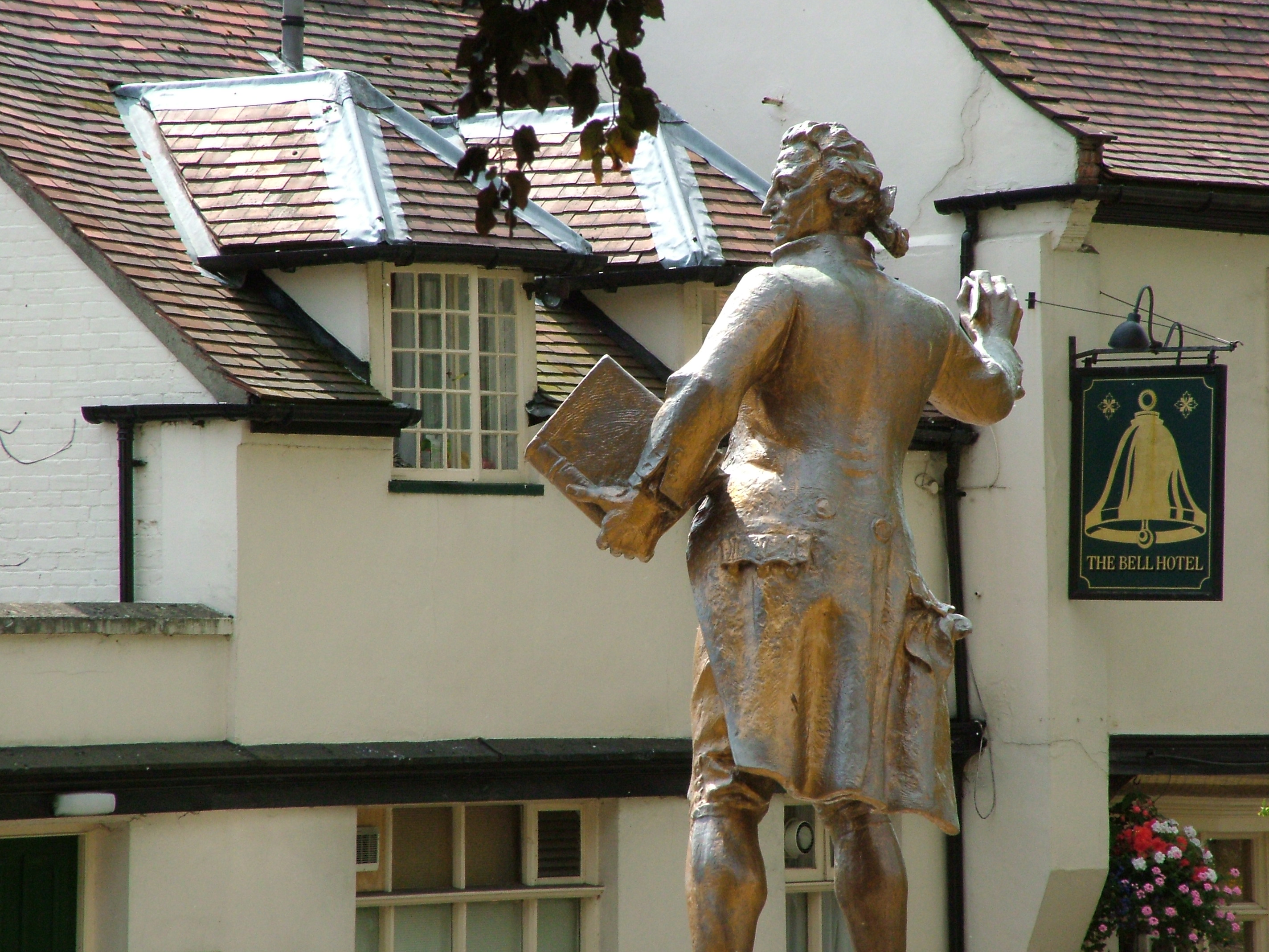 Thetford (Norfolk), Thomas Paine statue